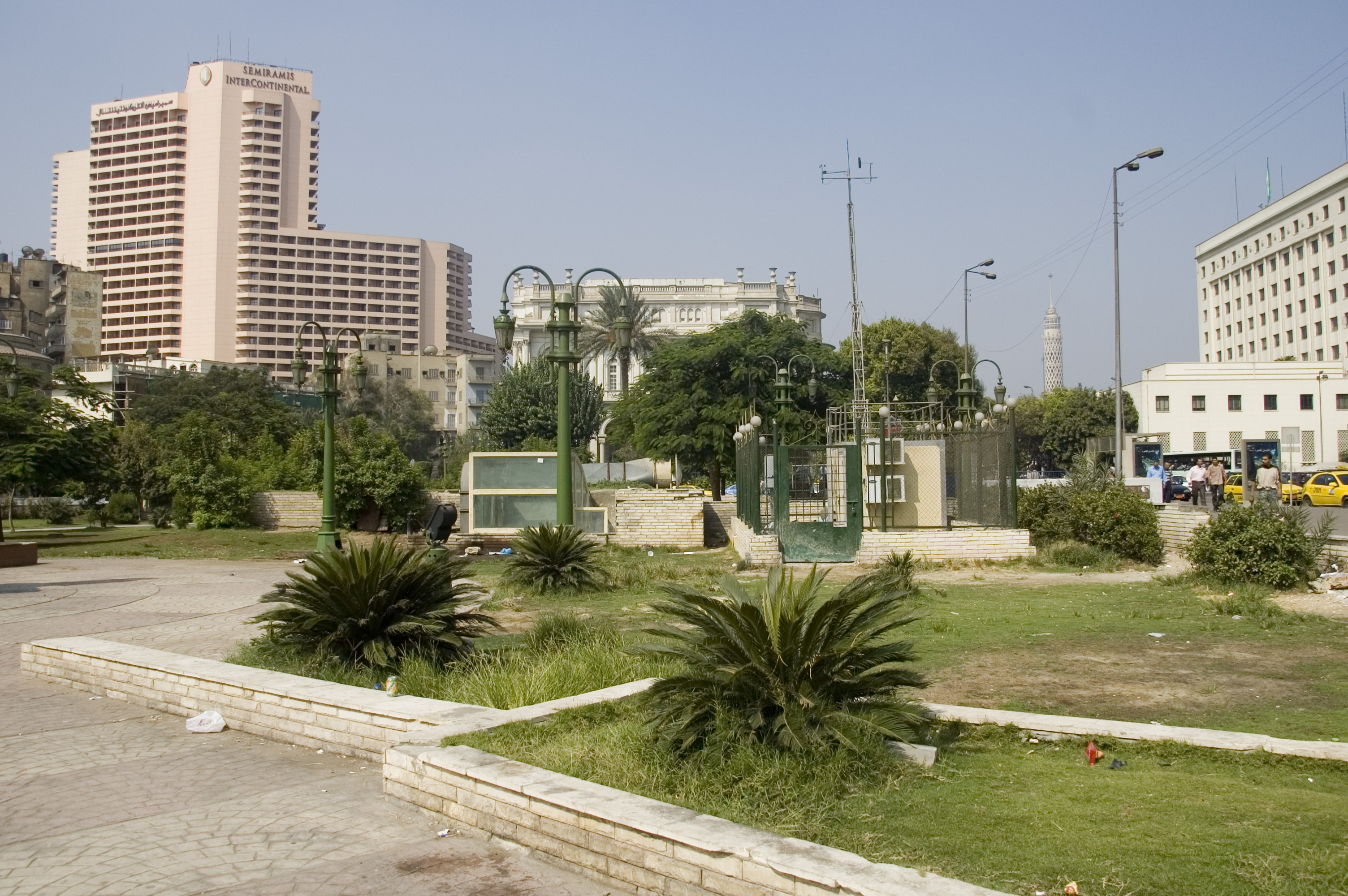 This is what you see if you glance to the side at liberation square. Cairo.